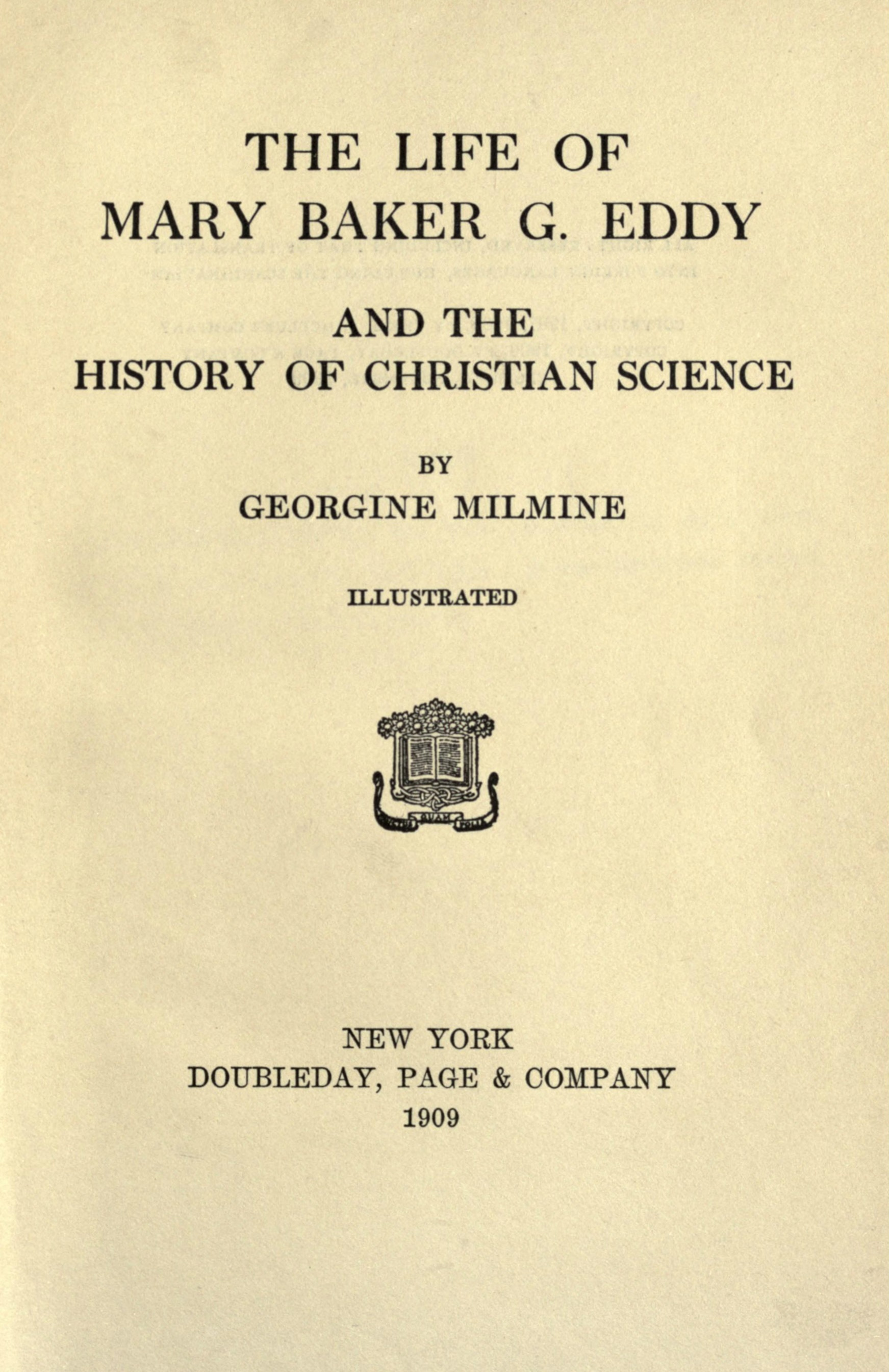 First edition cover of The Life of Mary Baker G. Eddy by Willa Cather and Georgine Milmine